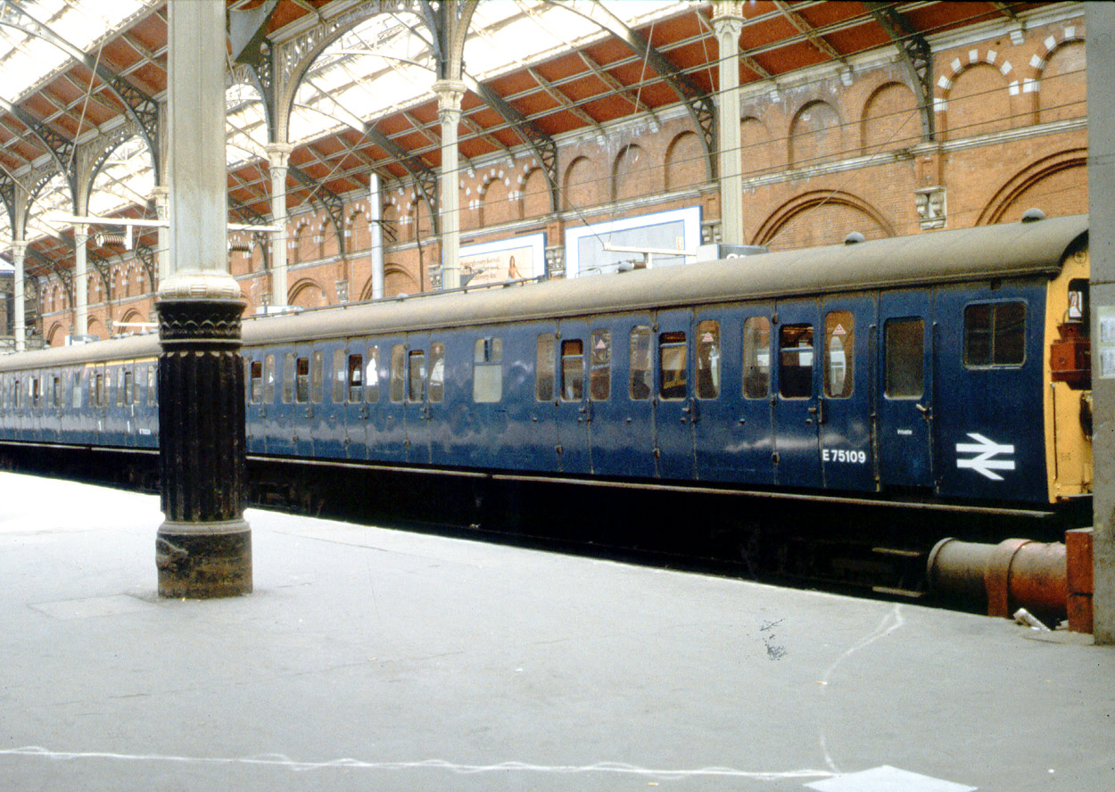 British Railways class 307 train in plain blue livery on a working to Southend Victoria awaits its correct departure time at London Liverpool Street station. The frosted windows denote the location of the toilets. The second carriage includes some first class seating.